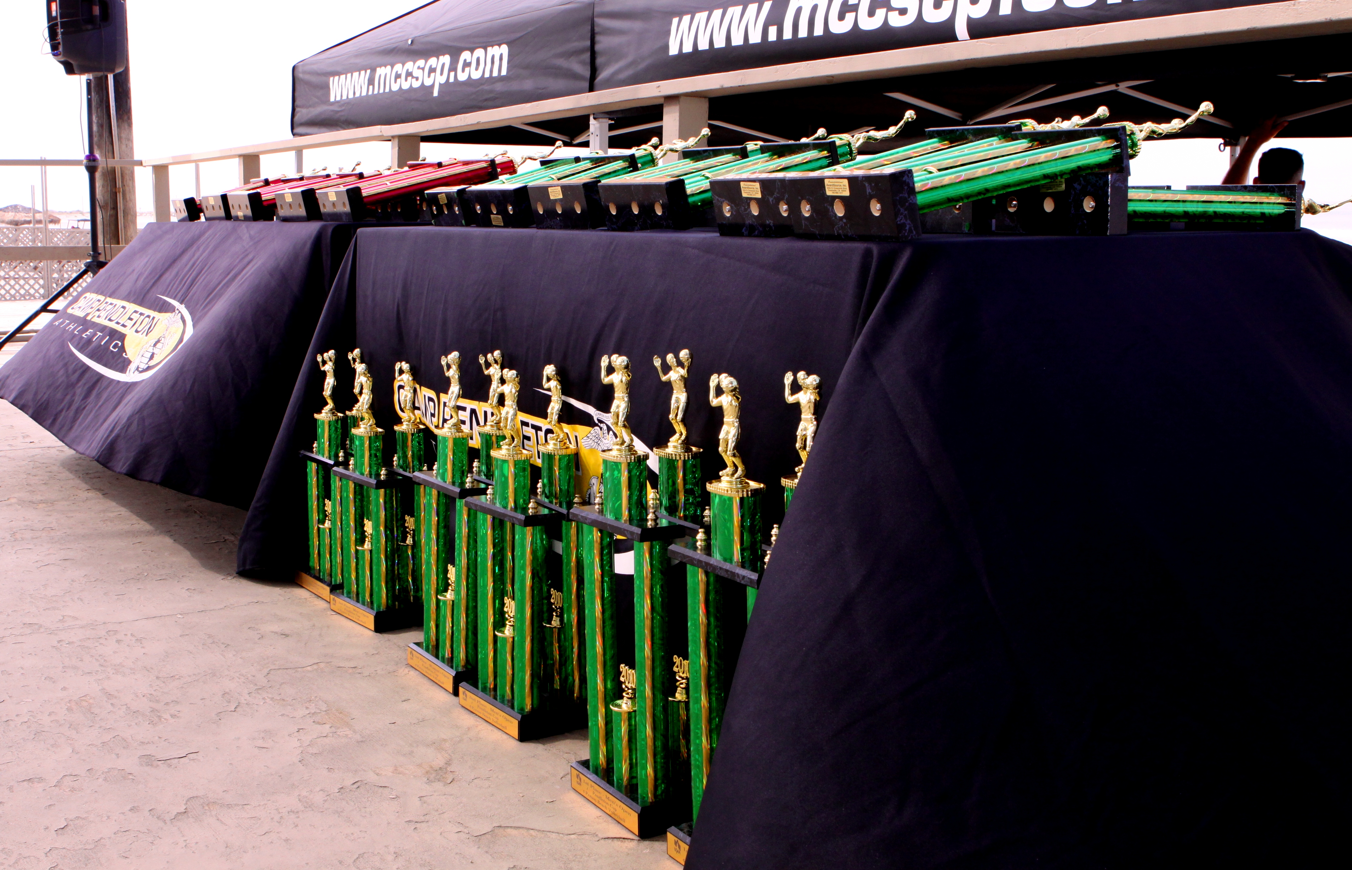 Trophies are lined up during Camp Pendleton’s 2010 Pendleton Cup two and four Person Beach Volleyball Tournament at Camp Del Mar’s beach, Aug. 4. The Marine Corps Community Services Pendleton Cup Series provides active duty personnel, regardless of skill or experience, an opportunity to take part in a variety of competitive unit sports while competing for monetary prizes to be given to their respective unit's funds.